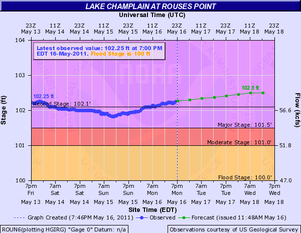 Water level graphic of Lake Champlain at Rouse Point, VT. One can see that the level has surpassed the historical levle of 102.1 feet set in 1869.